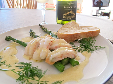 Scampi med asparges